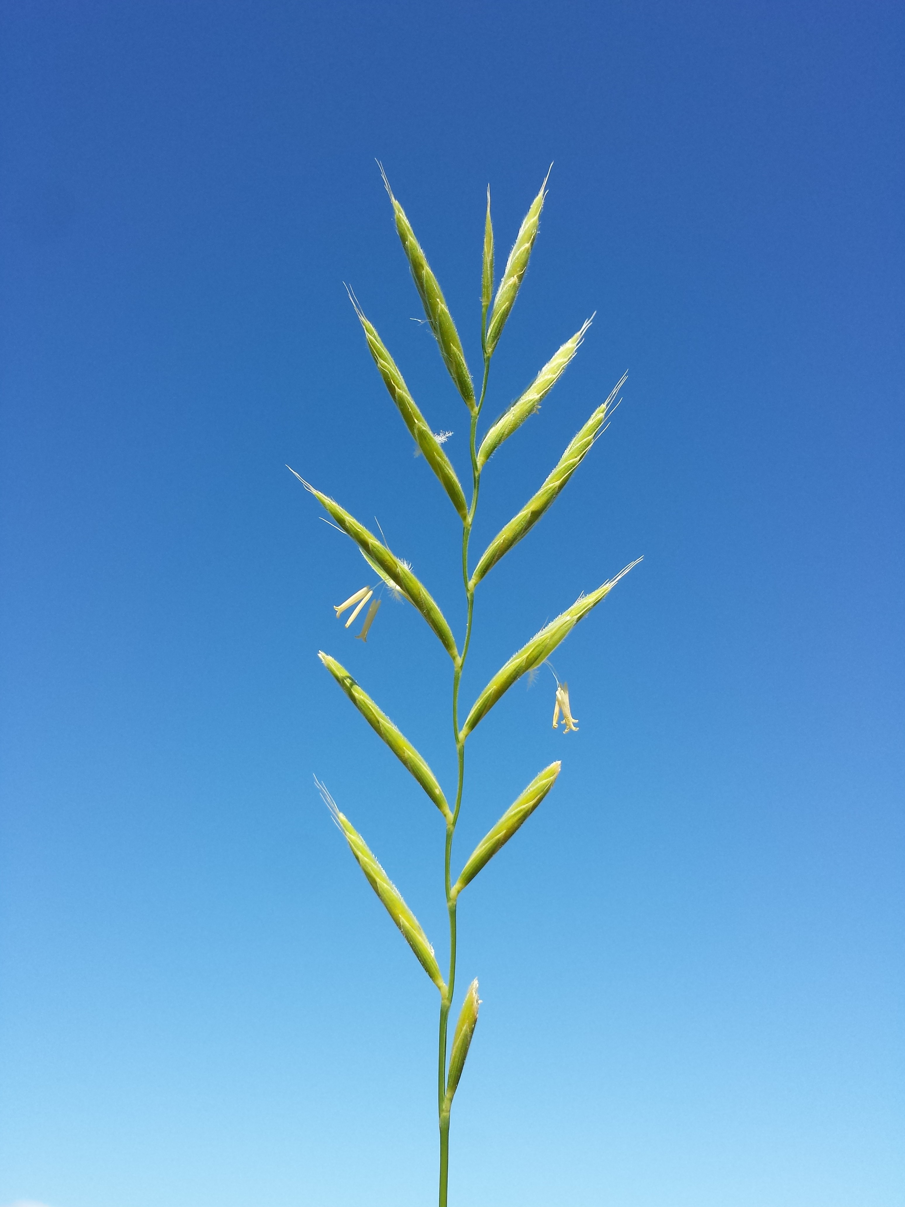 Spike Taxonym: Brachypodium pinnatum ss Fischer et al. EfÖLS 2008 ISBN 978-3-85474-187-9 Location: Latschenberg near Altenmarkt im Thale, district Hollabrunn, Lower Austria - ca. 330 m a.s.l. Habitat: semi-dry grassland